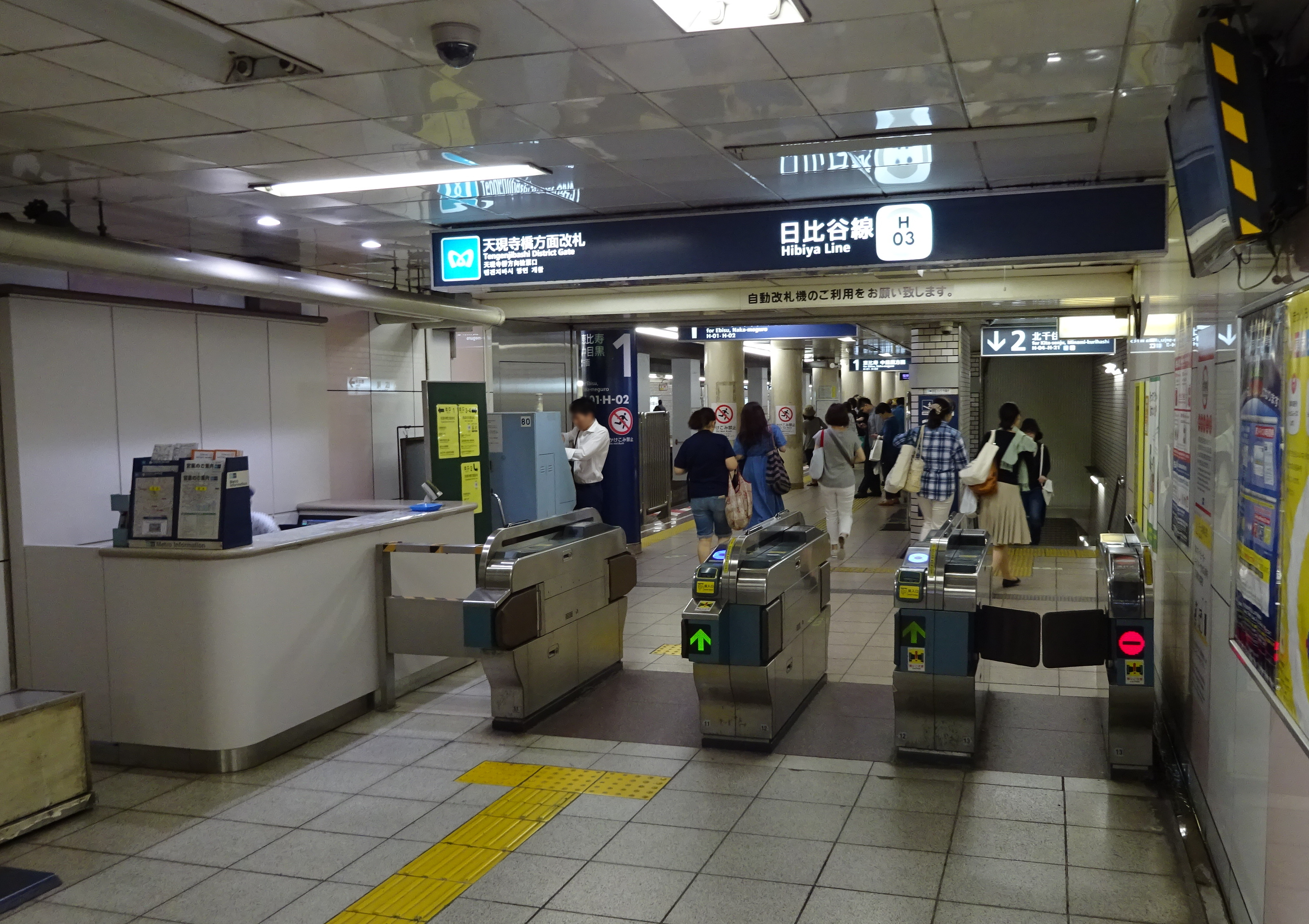 Ticket barriers of Hiroo Station (Tengenjibashi district gate)